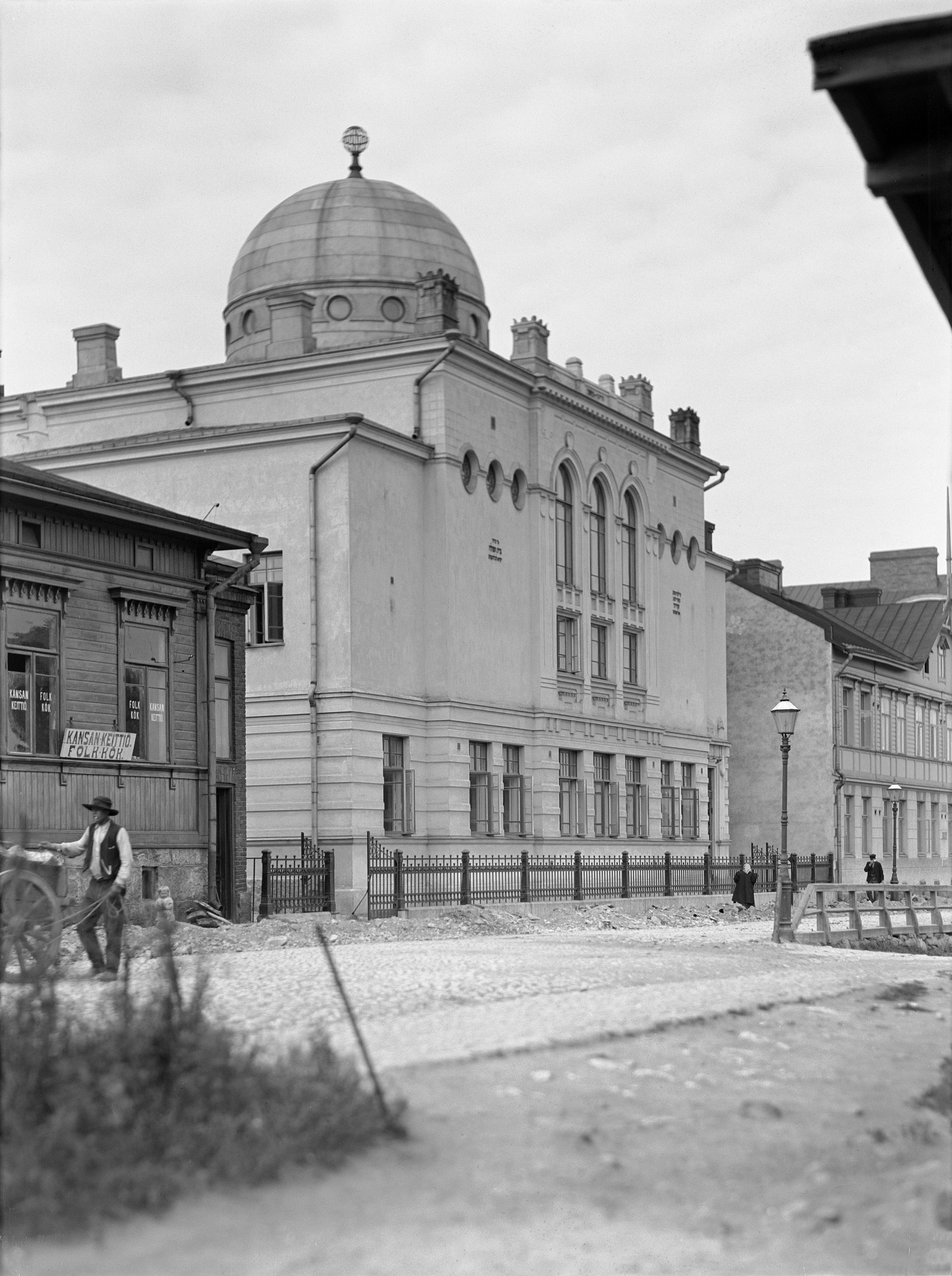 Helsinki Synagogue on Malminkatu in Helsinki, Finland.